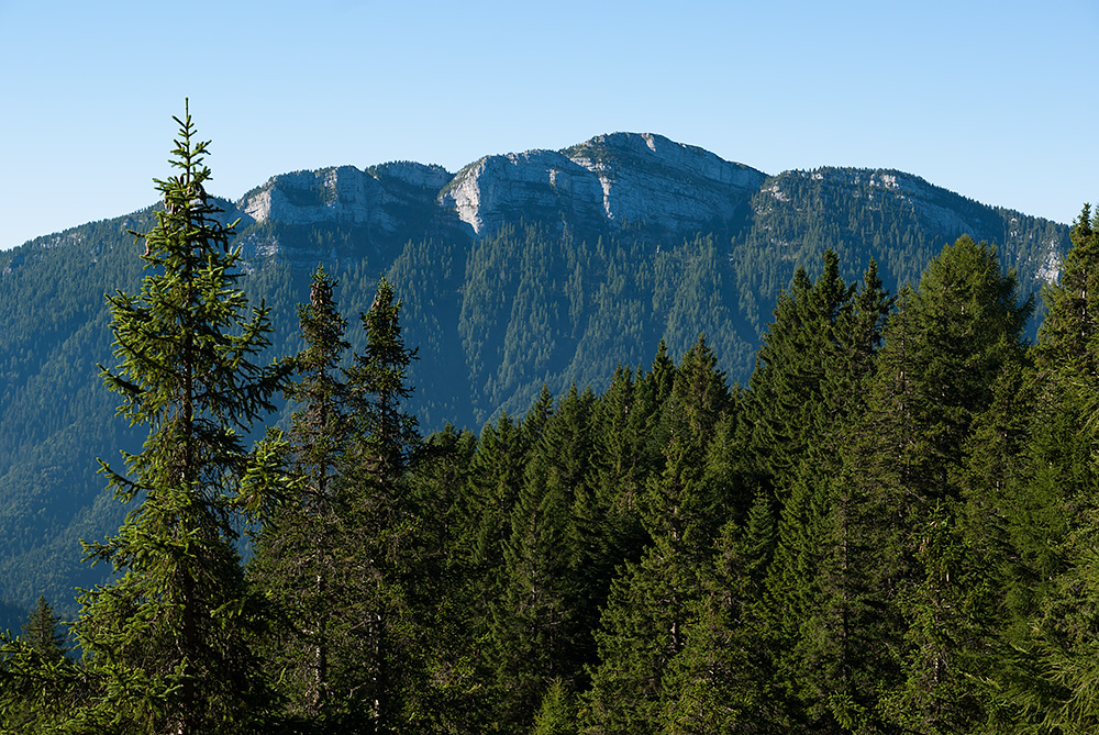 mount Verena north face